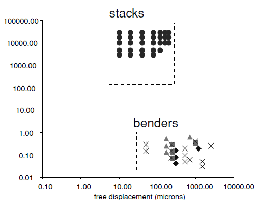 force–deflection specifications for piezoelectric stacks and benders.